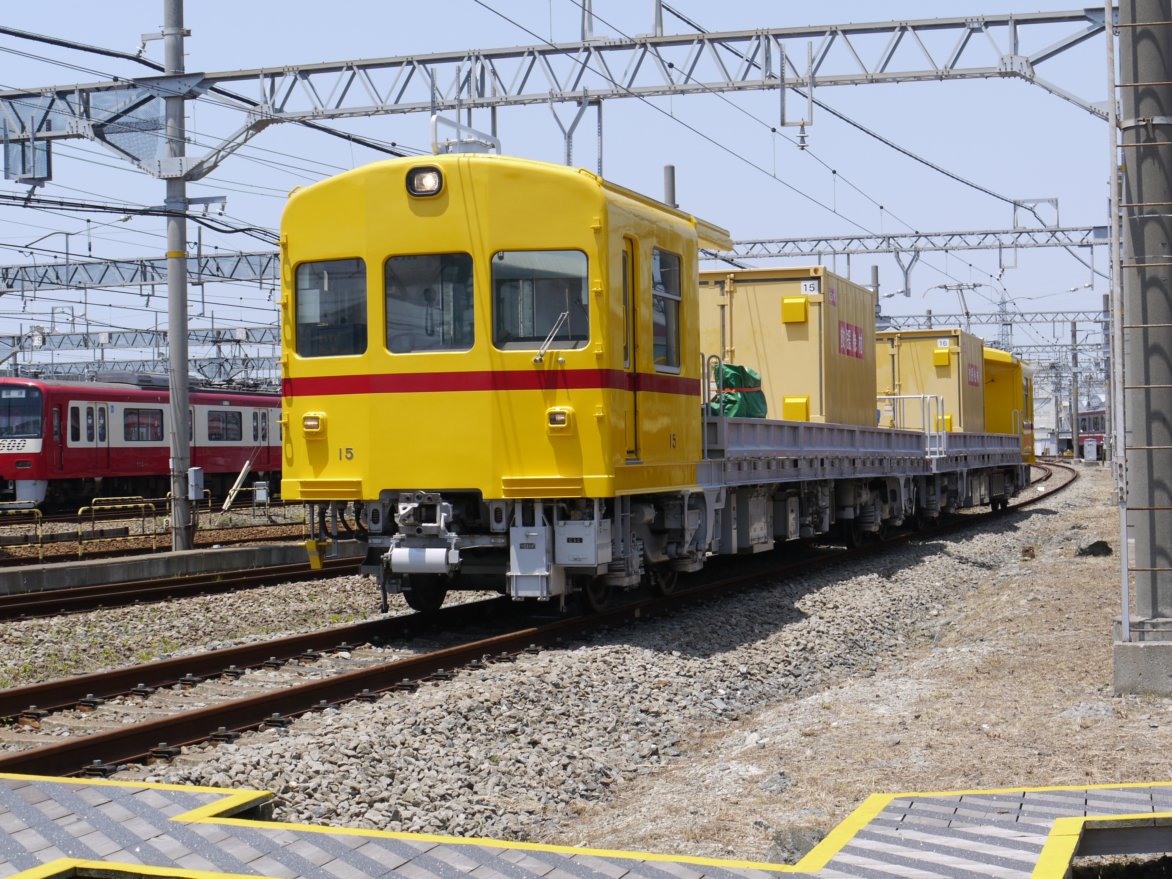 Keikyu Deto 15 of type Deto 17 after the replacement of major components, Taken on a day when Keikyu Fintech Kurihama factory is open for public